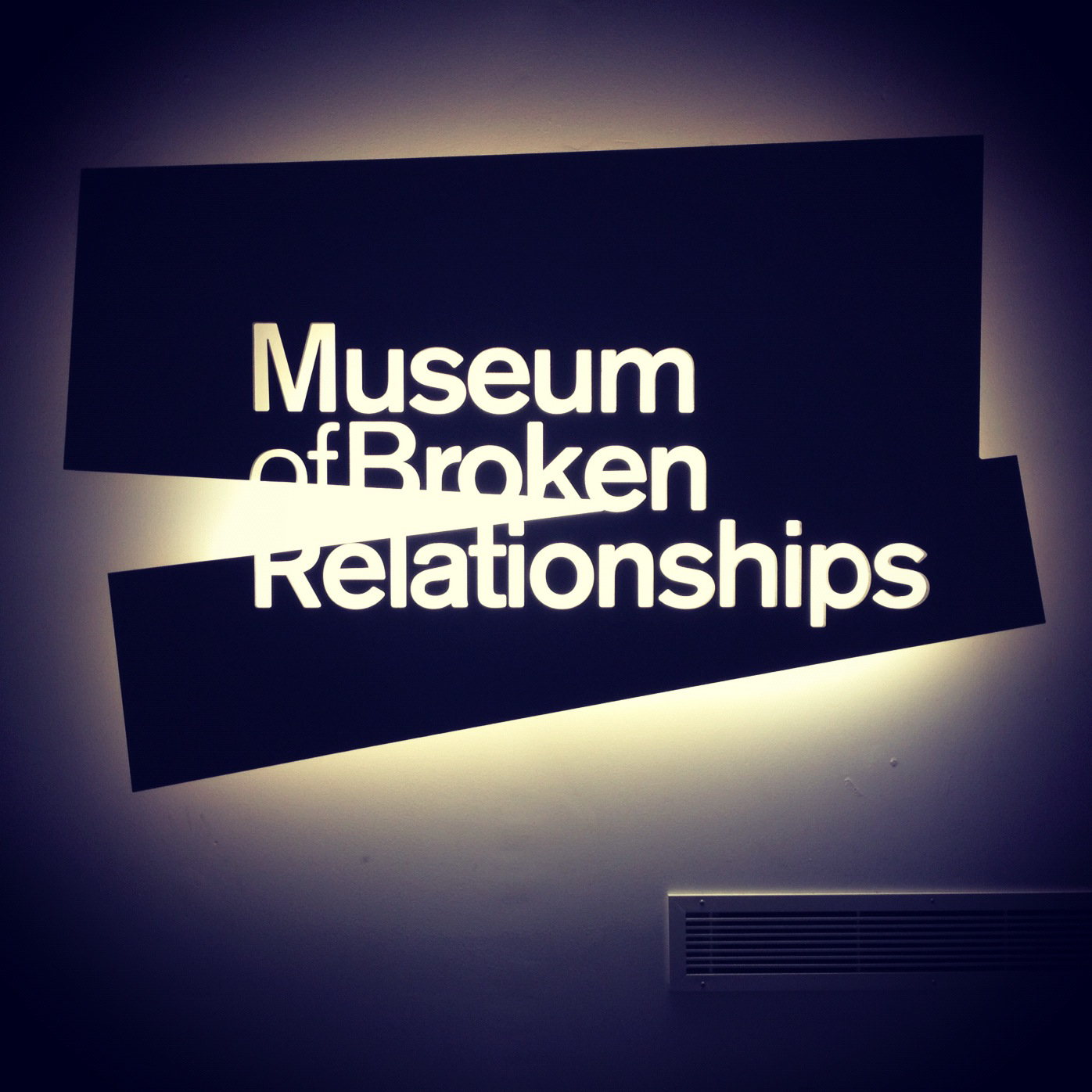 Museum of Broken Relationships, Zagreb, Croatia.